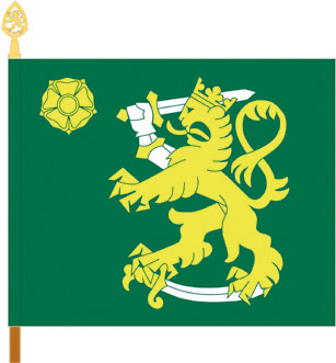 Colour of Land Warfare School (Finland)